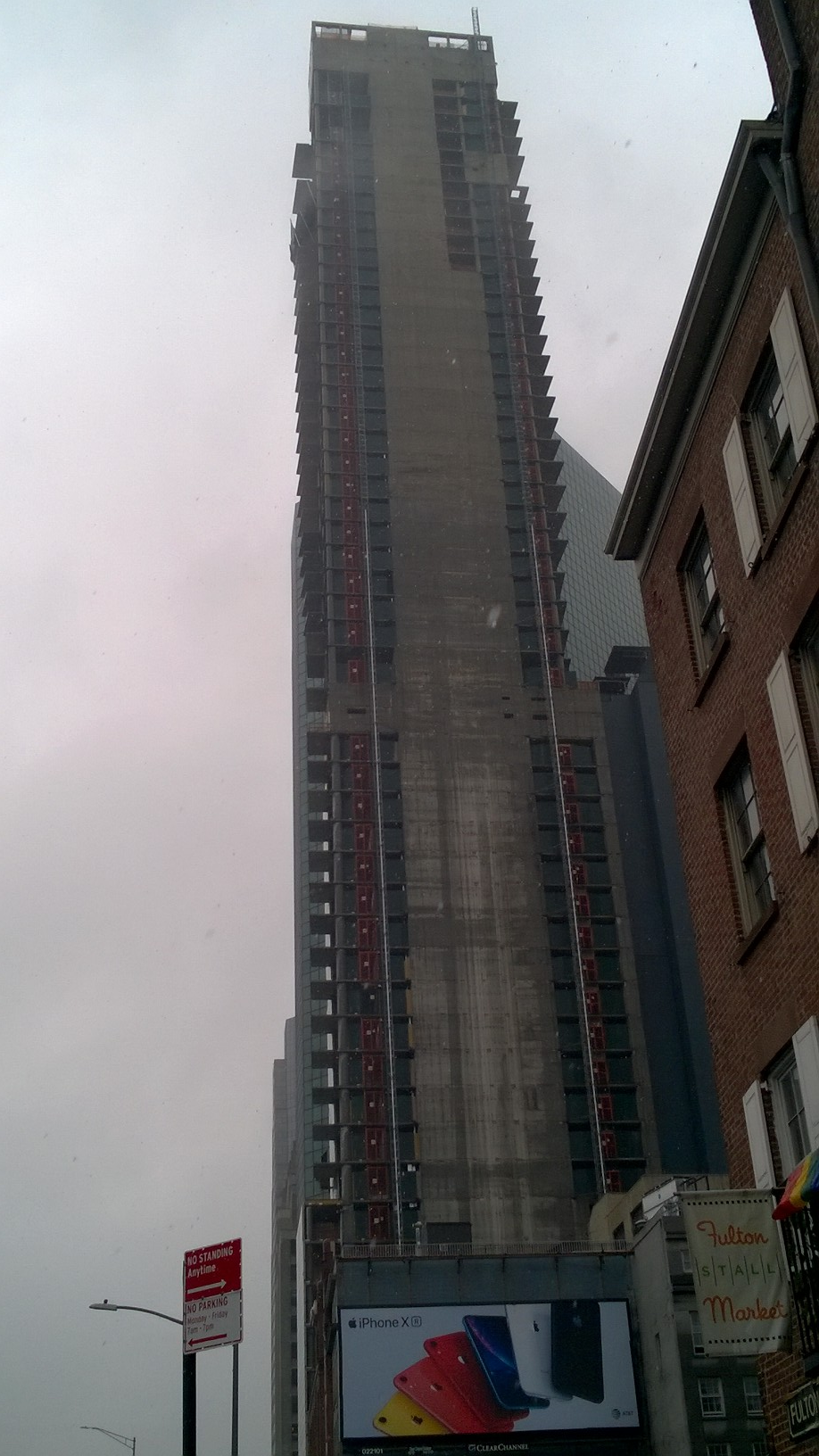 1 Seaport, under construction on June 10, 2019.